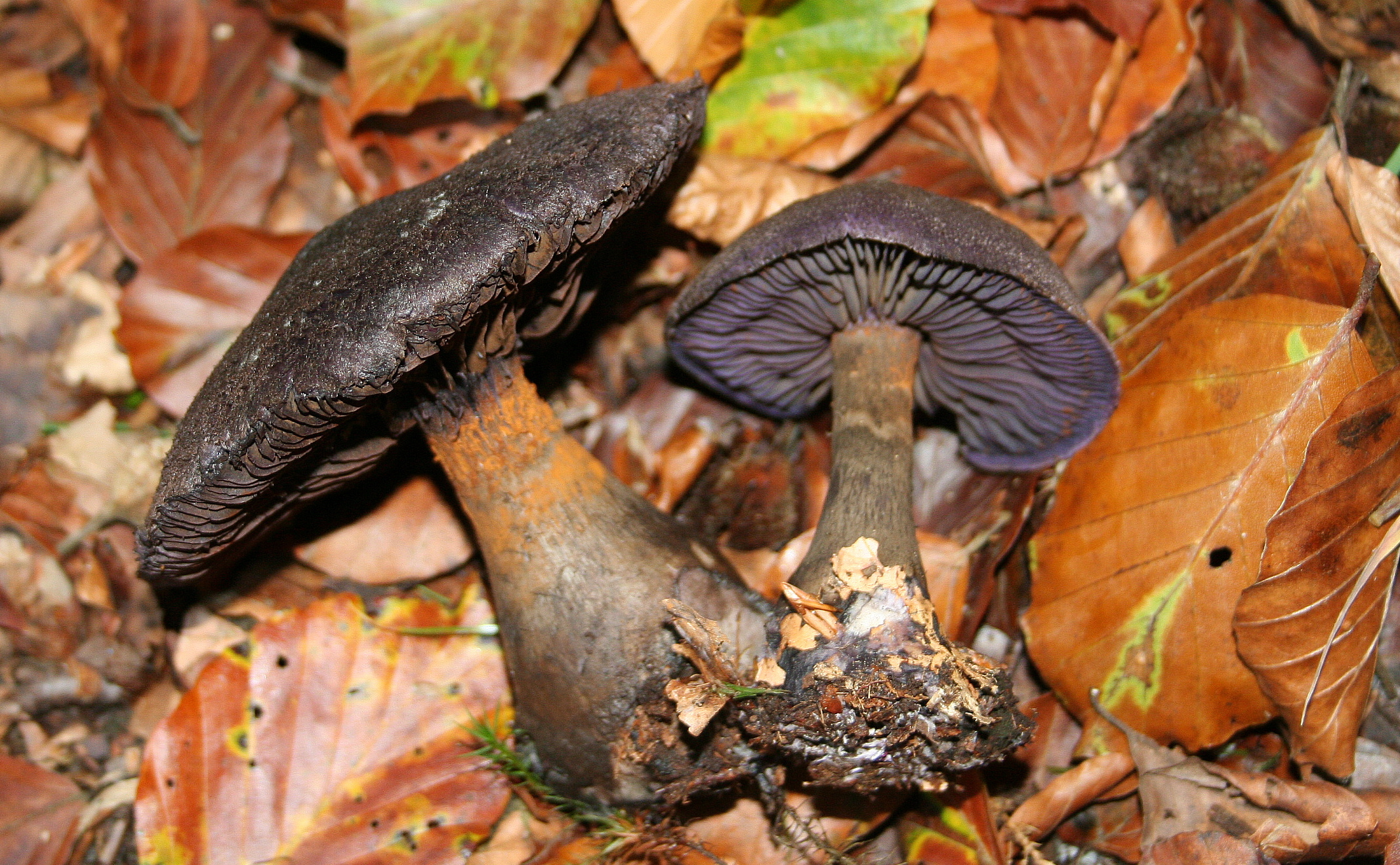 Purple Cortinar (Europe) - Violet Cort (North America)